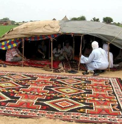 bahr el gazel peoples